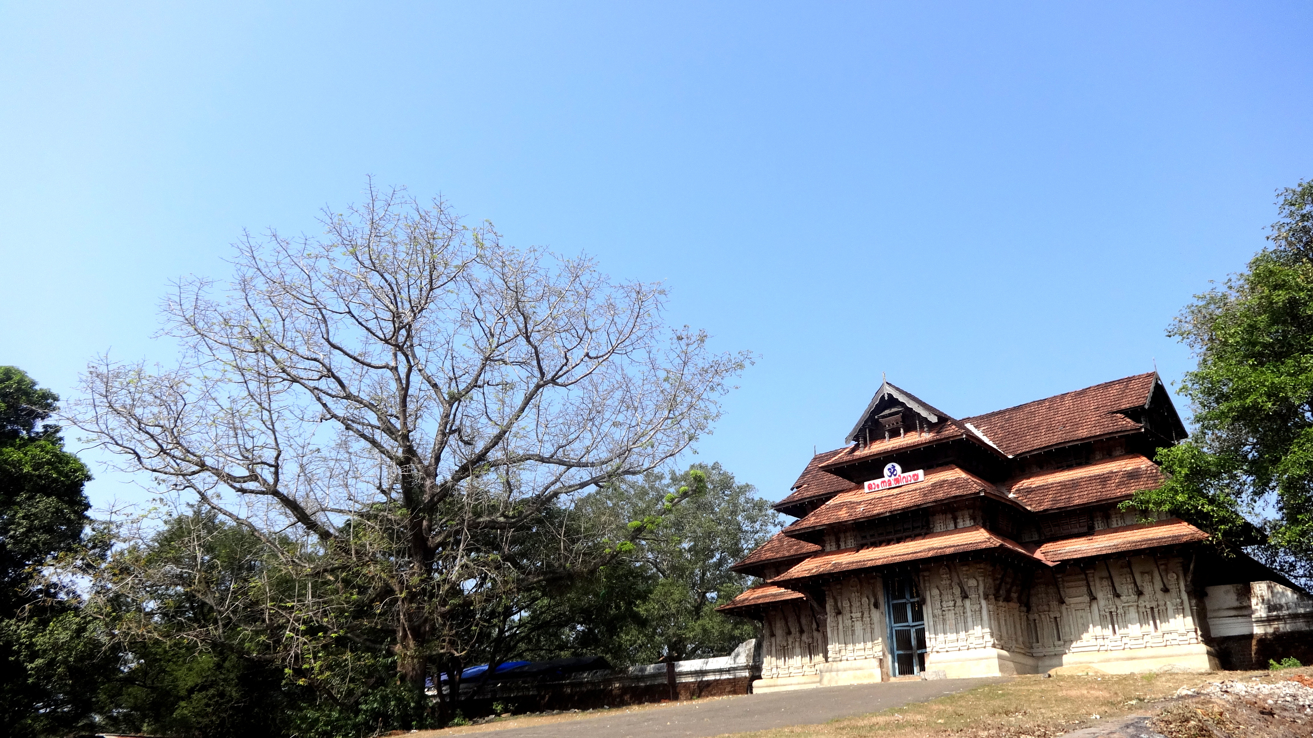 Southern Gopura of Vadakkunnathan Temple